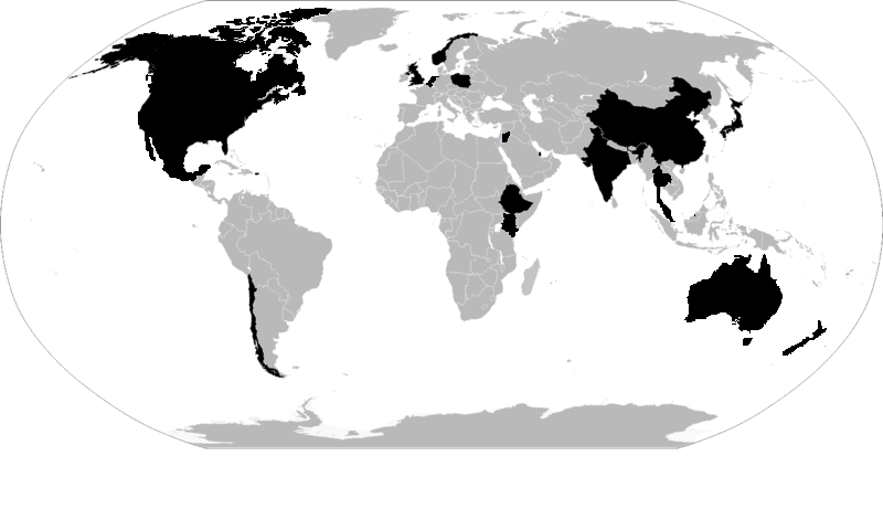 The Boeing 787 Dreamliner across the world (at least one airplane)